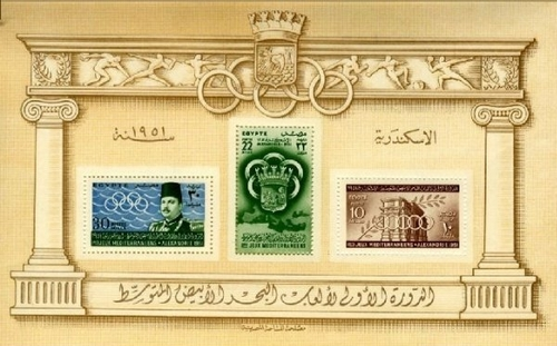 First Mediterranean Olympics - Alexandria 1951